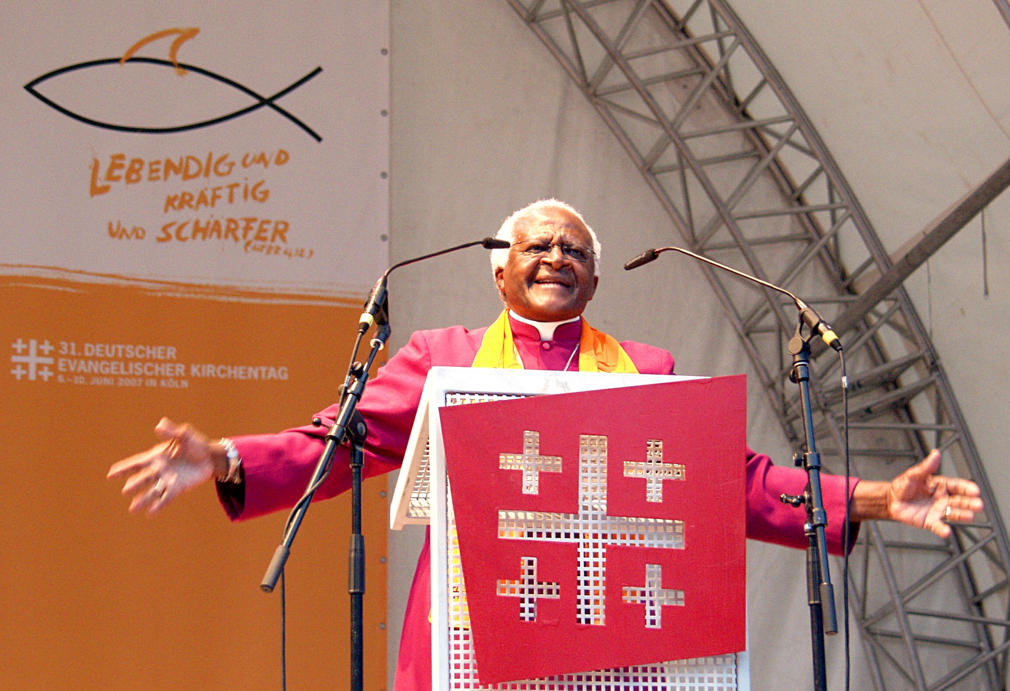 Desmond Tutu, Archbishop, South Afrika, on the "Deutschen Evangelischen Kirchentag", Cologne, 2007